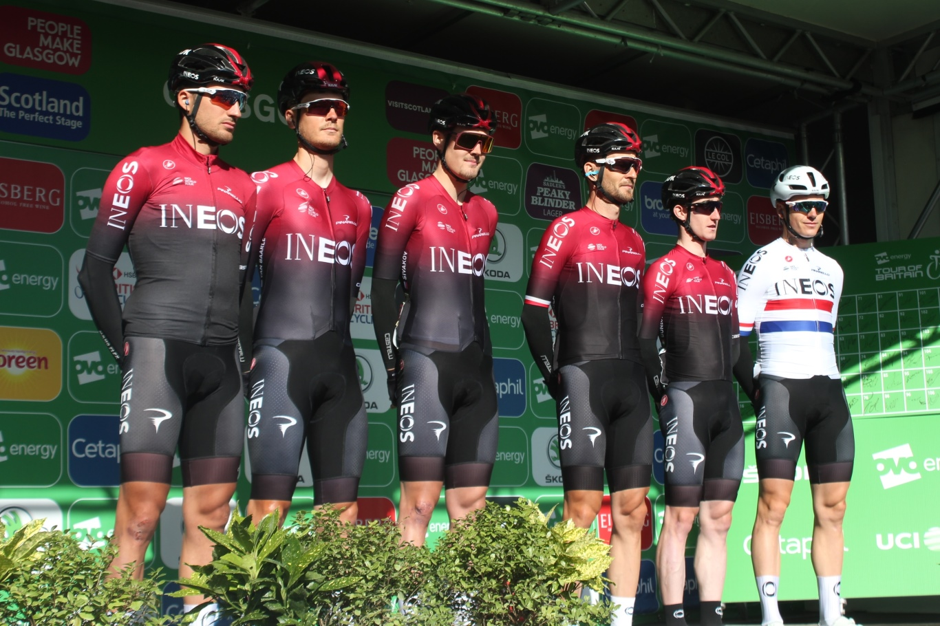 Team Ineos at the start of the 2019 Tour of Britain. The riders are Dylan van Baarle, Michal Golas, Gianni Moscon, Edward Dunbar, Pavel Sivakov and British road racing champion Ben Swift.